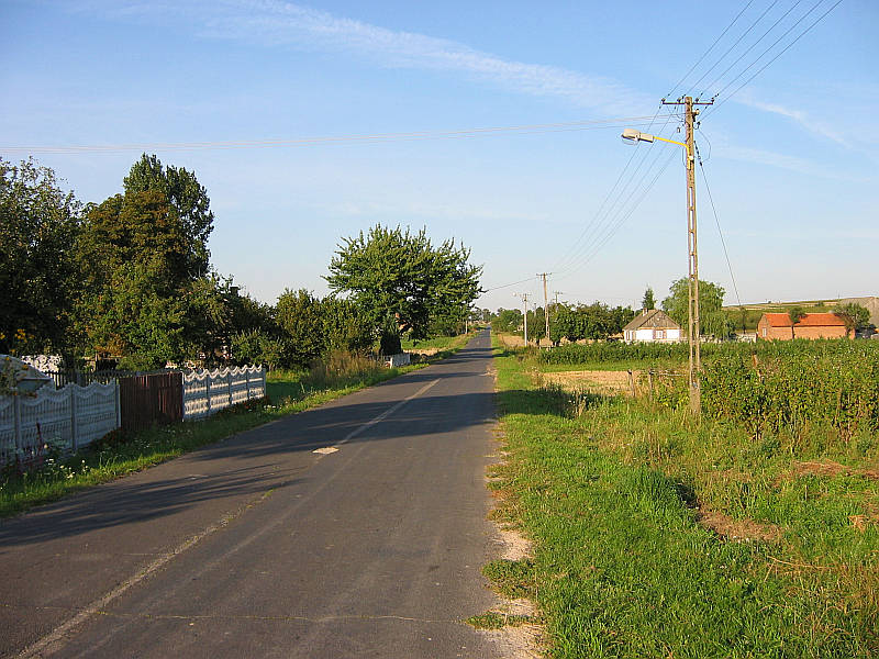 Village in Poland. Lisnik Duzy Kolonia.